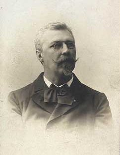 Danish architect Albert Christian Jensen (1847-1913)